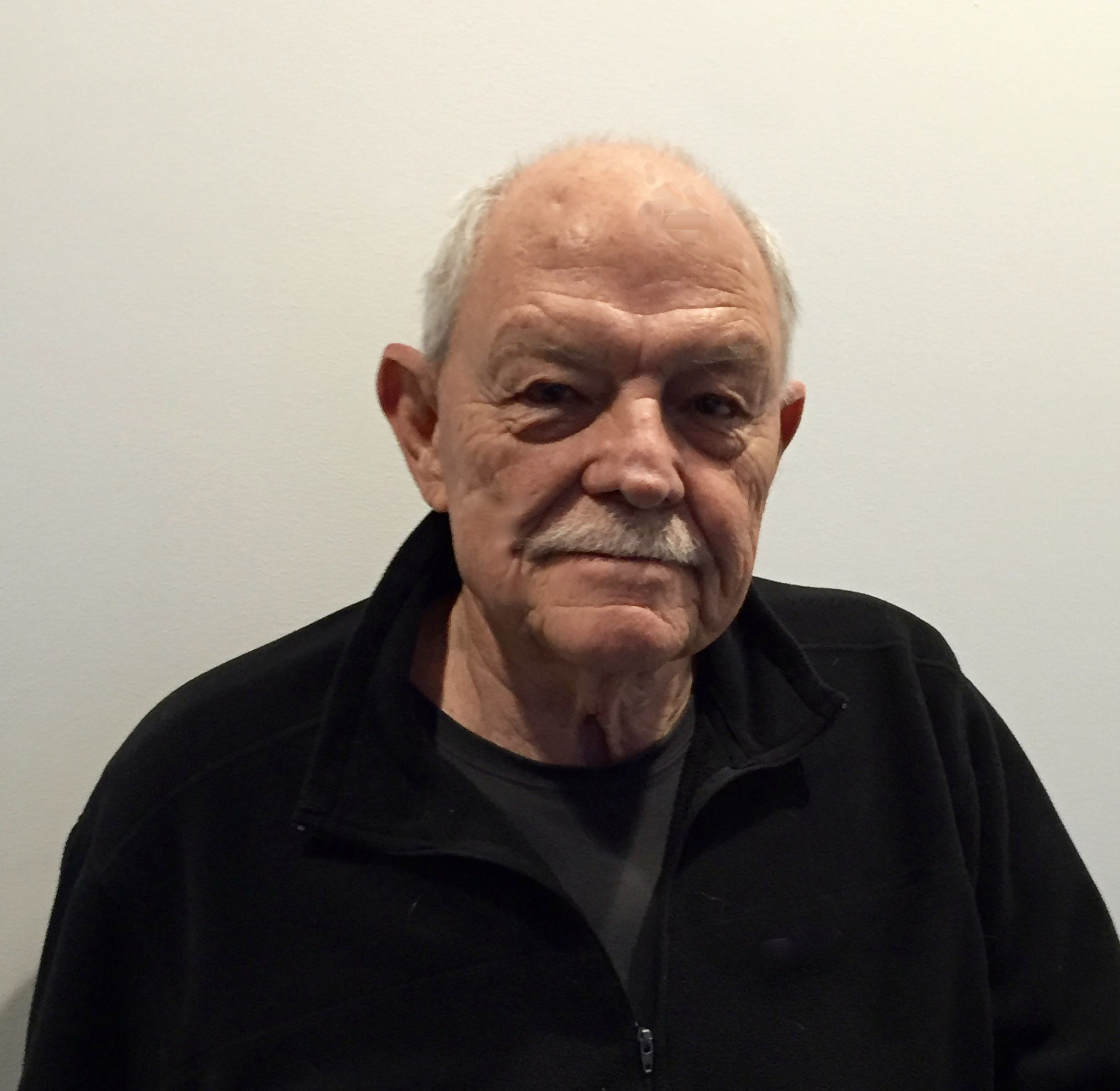 Gerald Moore in a Back Shirt, Jan. 2016